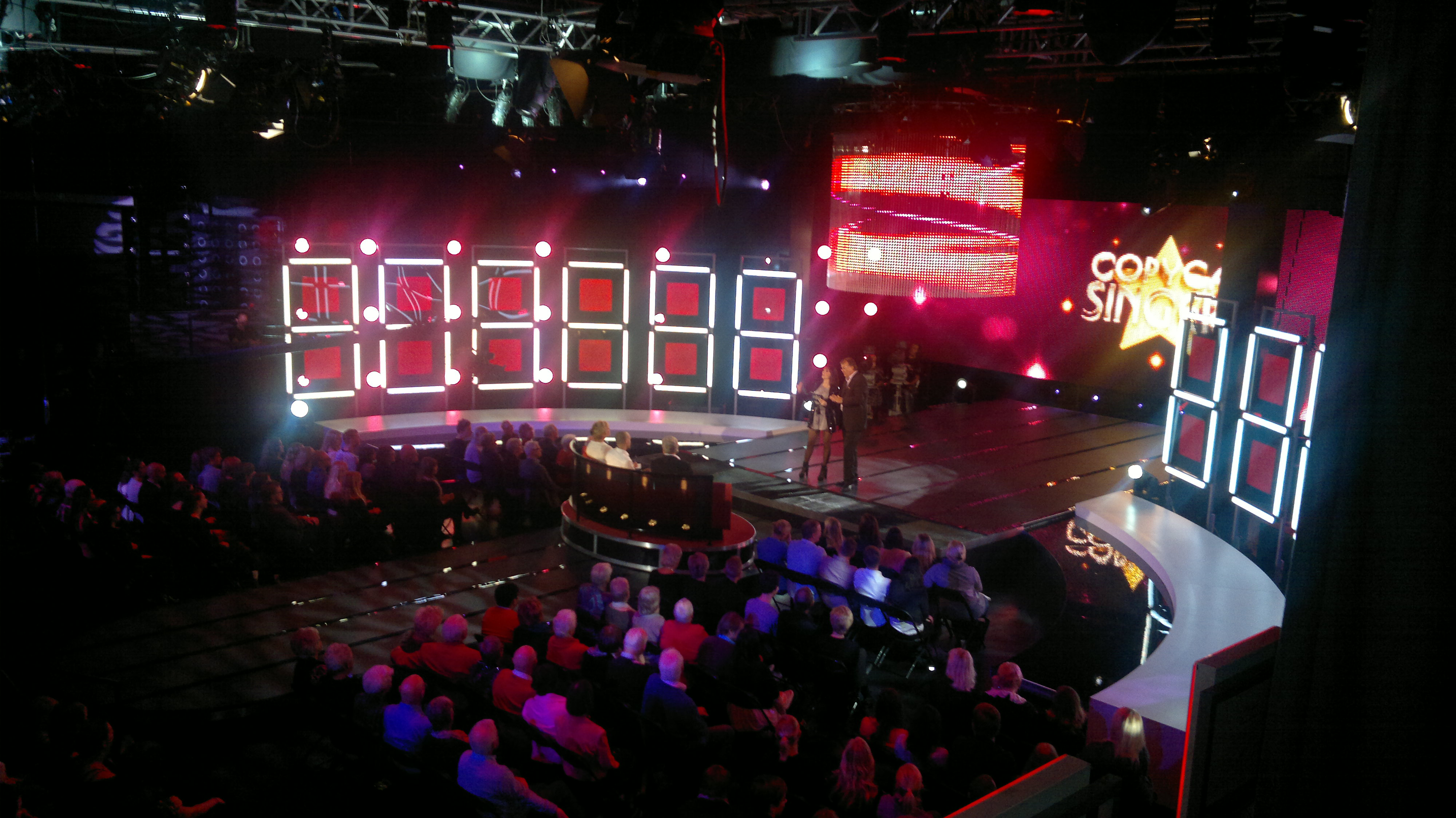 Studio overview of Copycat Singers, Season 01, episode 01.